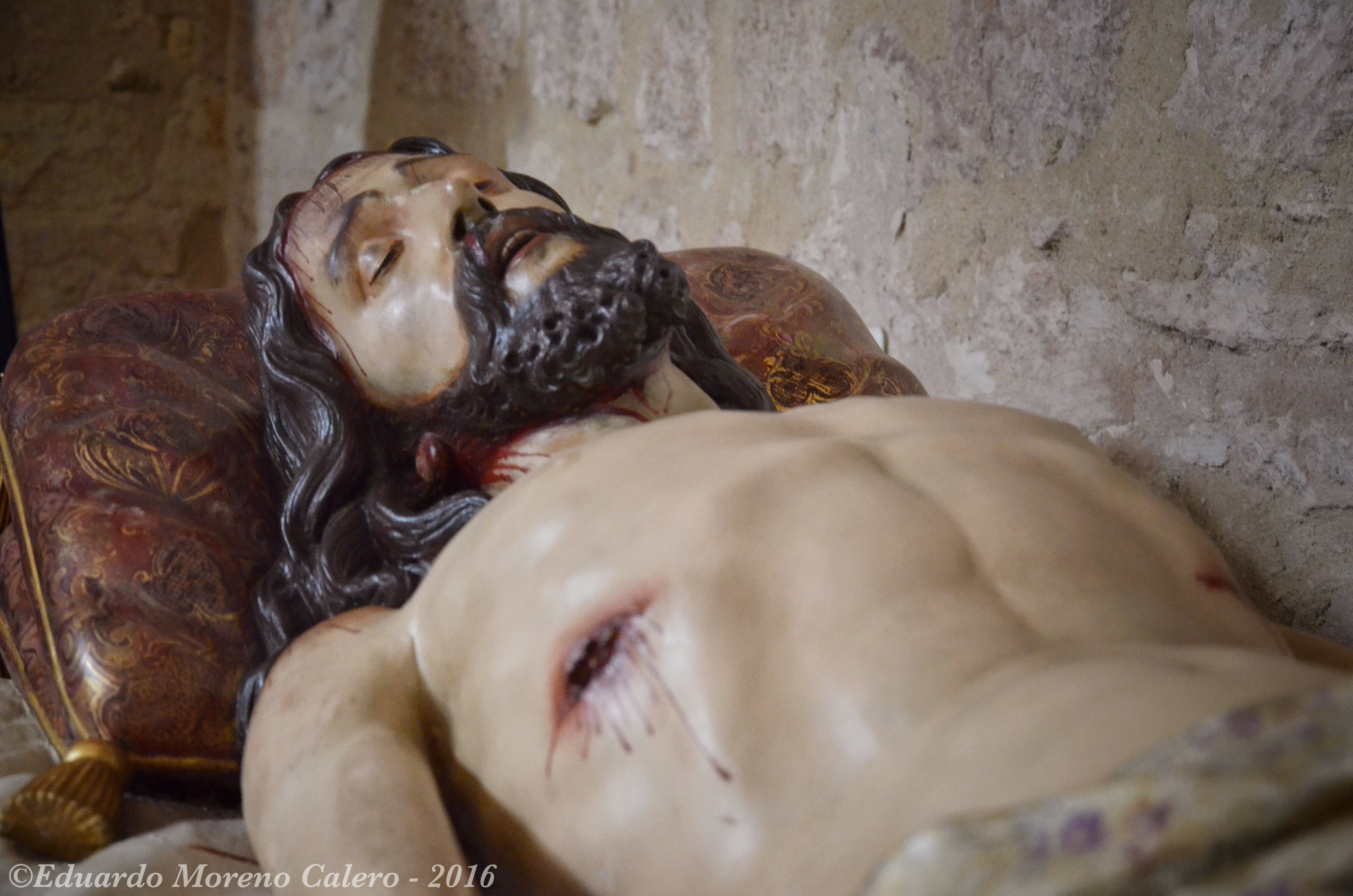 Dead Christ of Villarrobledo, Spain